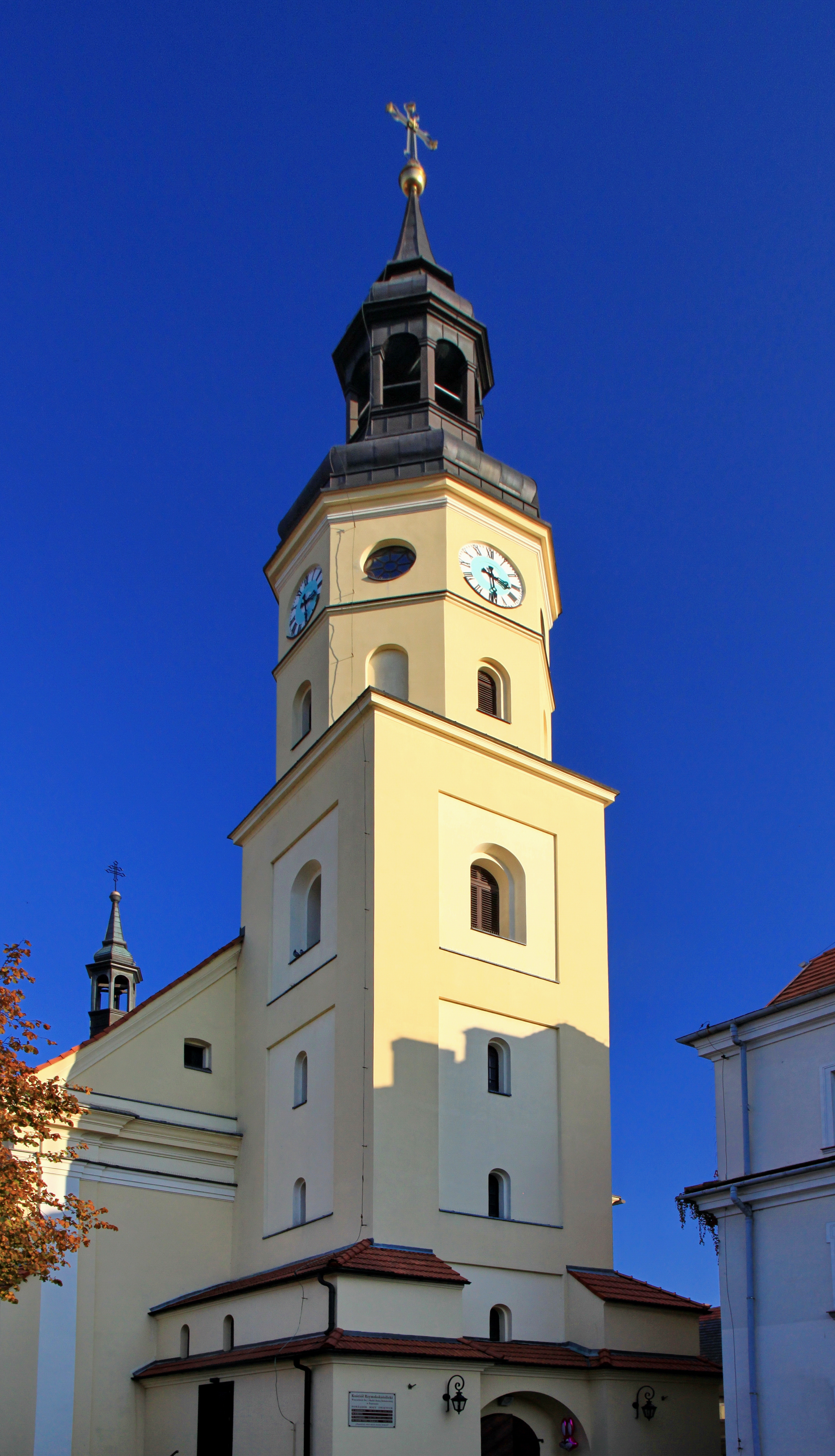 Pszczyna, All Saints parish church, build in end of 17th century, 1754, 20th century